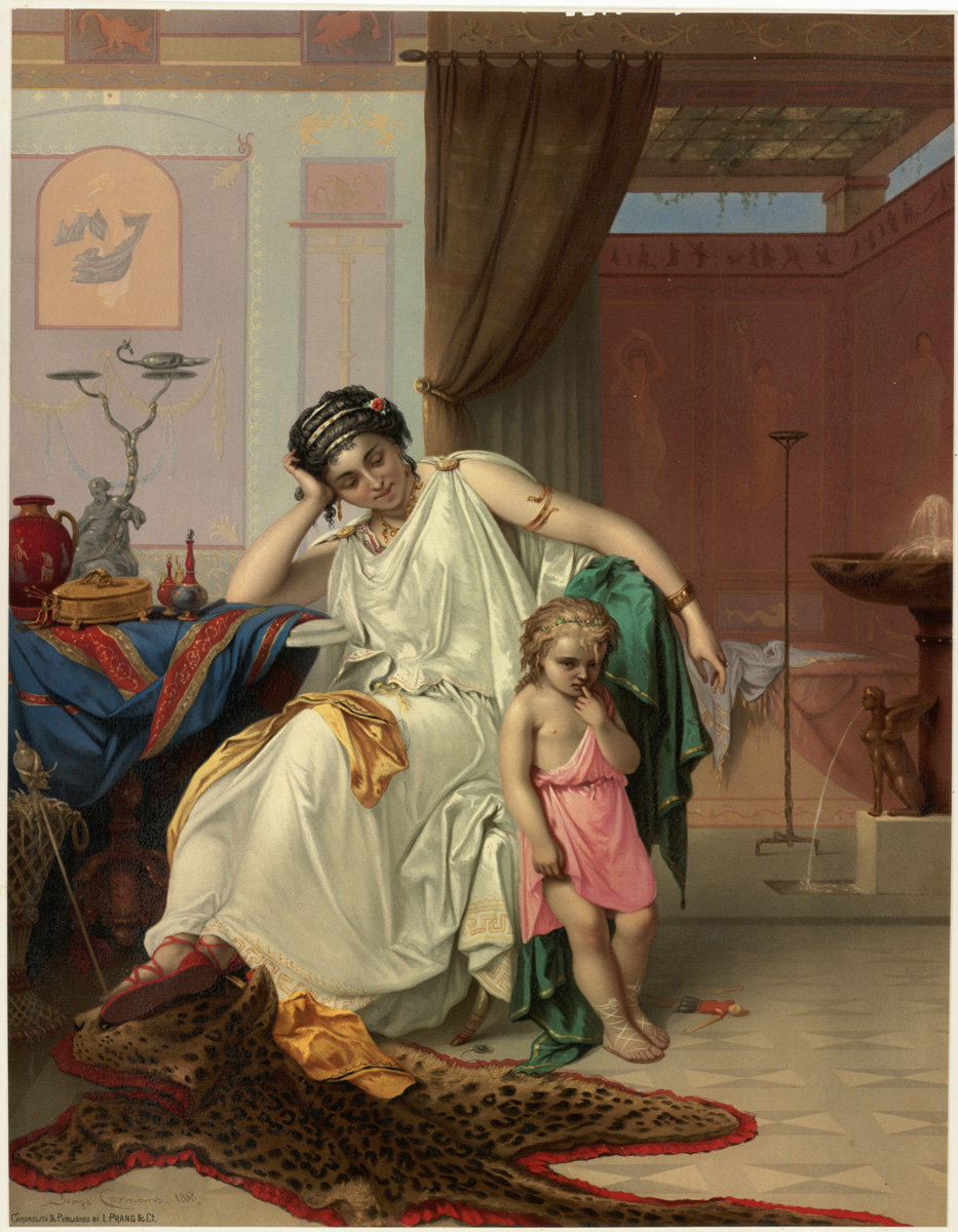 File name: 07_11_000330 Title: A Family Scene in Pompeii Creator/Contributor: Coomans, J. (Joseph), 1816-1890 (artist); L. Prang & Co. (publisher) Date issued: 1861-1897 (approximate) Physical description note: Varnished surface Genre: Chromolithographs; Portrait prints; Group portraits Location: Boston Public Library, Print Department Rights: No known restrictions Flickr data on 2011-08-07: Camera: Sinar AG Sinarback 54 FW, Sinar m License: CC BY 2.0 User: Boston Public Library BPL